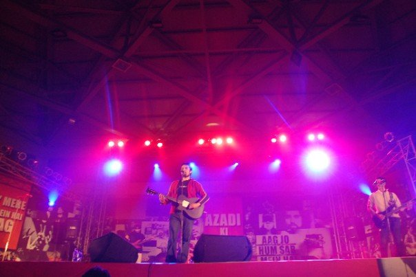 Noori performing live at LUMS in Lahore in 2007. Visible from left to right are; Ali Noor and Ali Hamza.